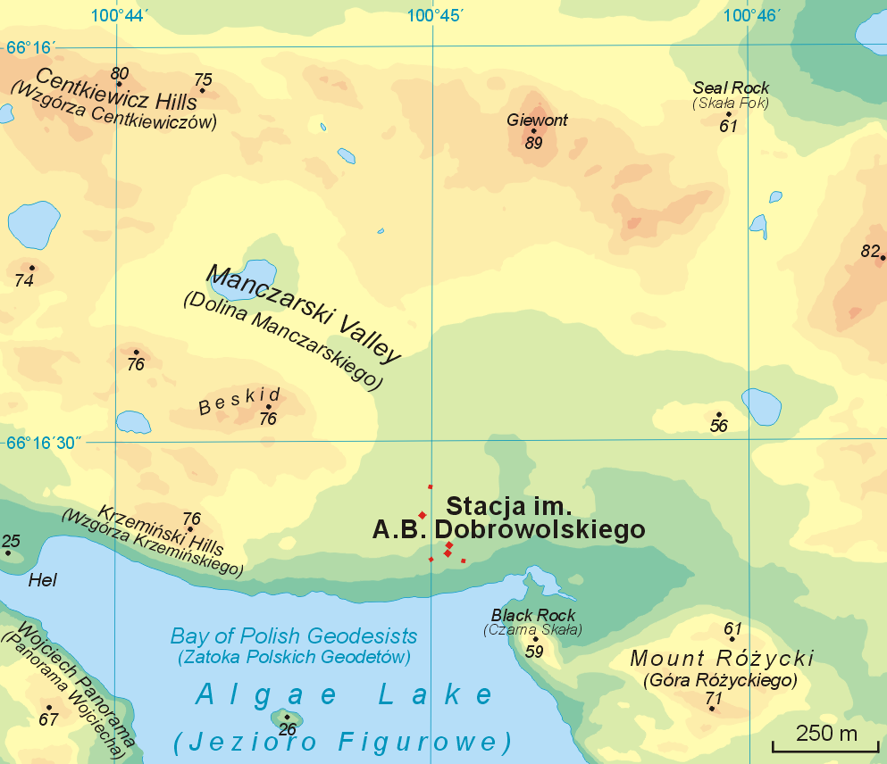 A.B. Dobrowolski Station neighbourhood